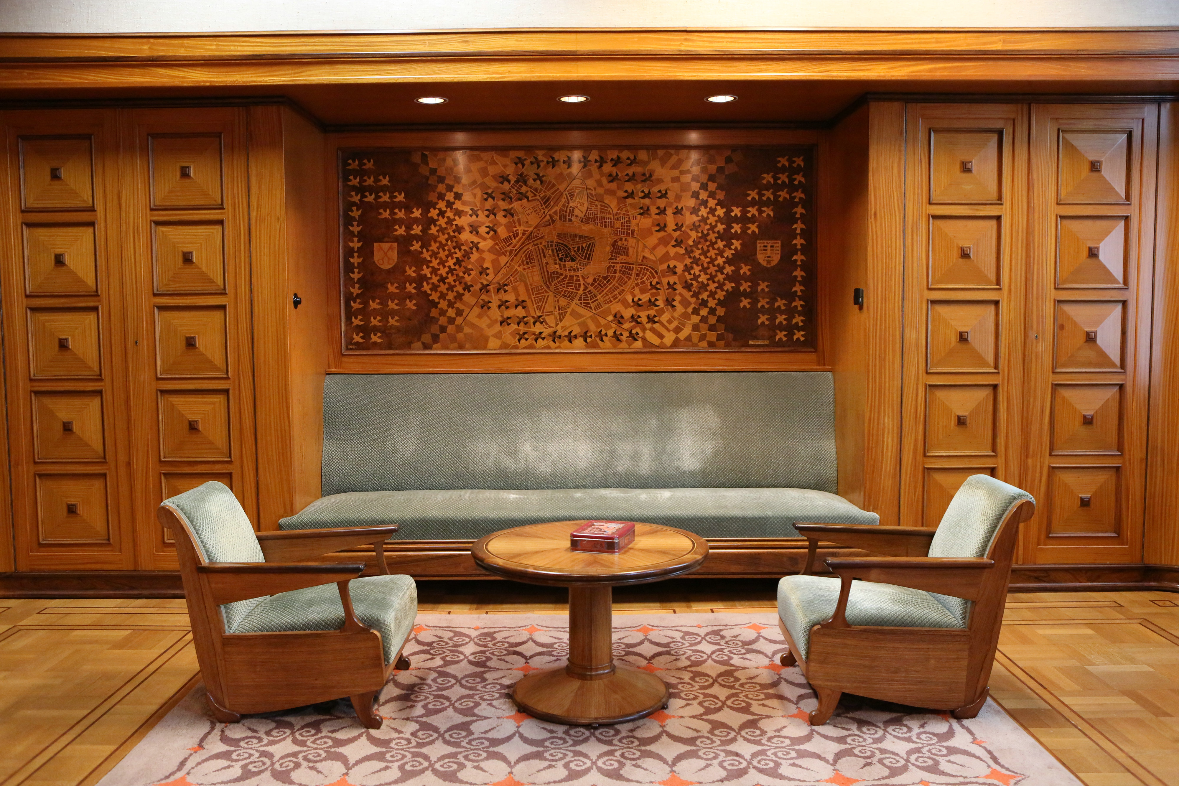 The wooden map of Leiden in the mayor's office in the town hall of Leiden, the Netherlands. Design by M.C. Escher.